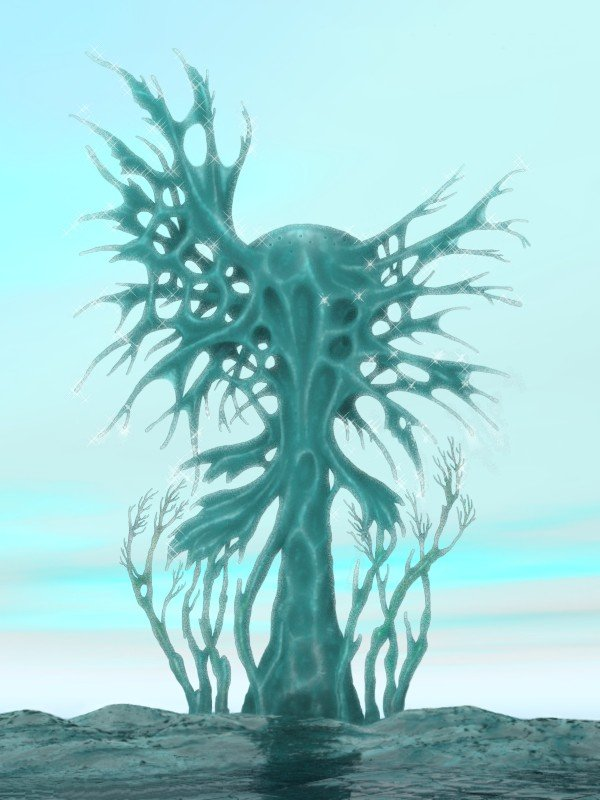 An asymmetriad